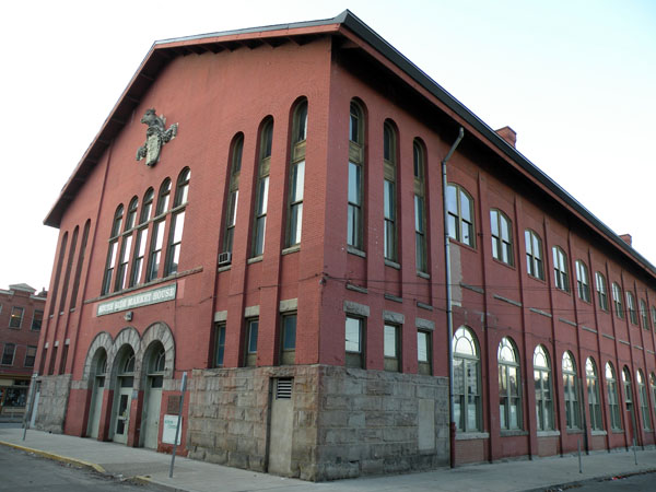 Picture of the South Side Market Building (or the South Side Market House), located at South 12th and Bingham Streets (Bedford Square) in the South Side Flats neighborhood of Pittsburgh, Pennsylvania, on November 22, 2009. The market building was built in 1915, and is listed on the National Register of Historic Places. An old sign under a concrete sculpture of a cow's head on the front of the building says, "Destroyed by fire and rebuilt AD 1915". The original market house on this spot was built in 1893, but burned around 1914 and was rebuilt in 1915. Architect: Charles Bickel. Architectural style: Richardsonian Romanesque, Romanesque Revival.